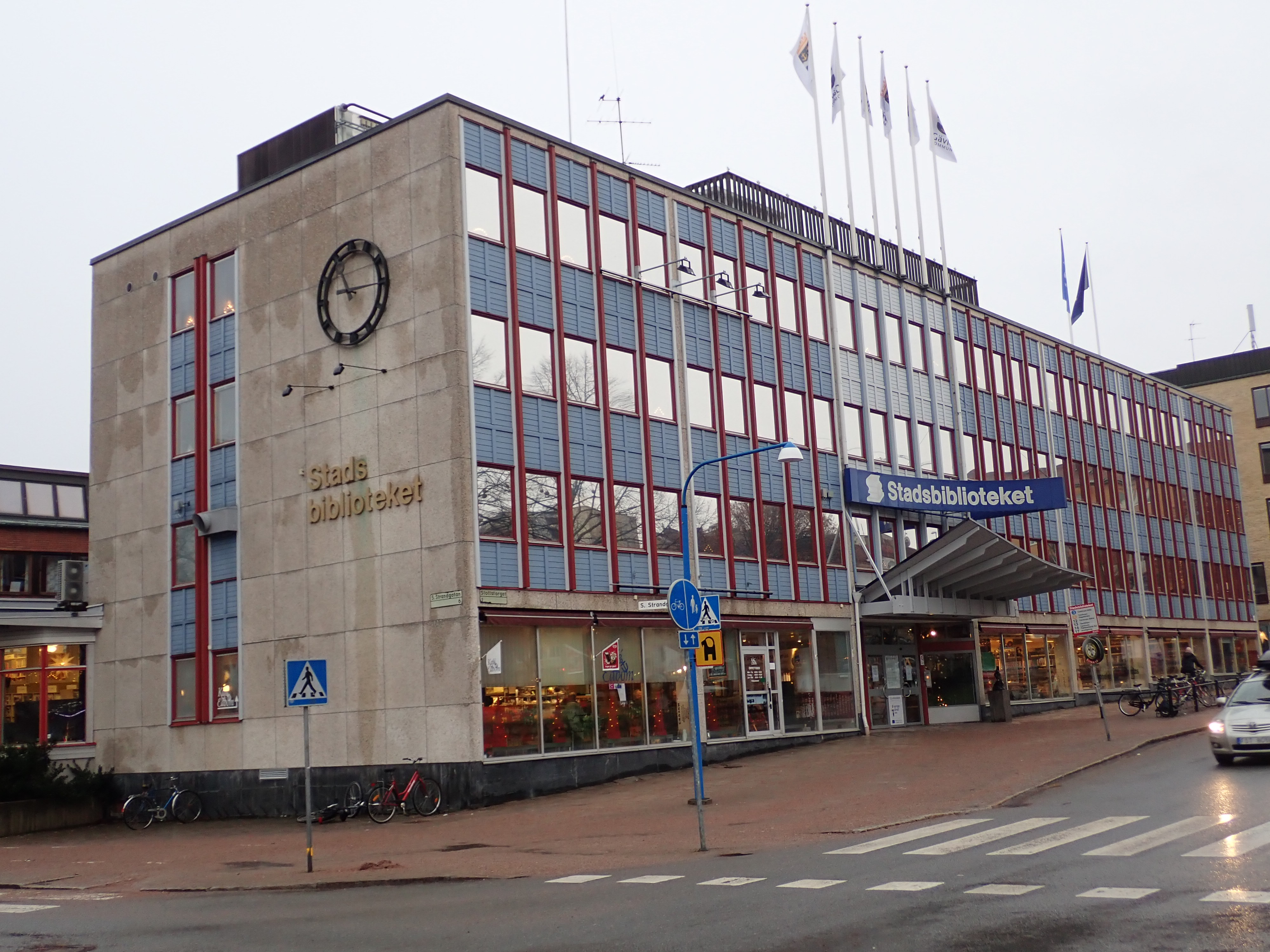 Gävle stadsbibliotek, Gävle City Library